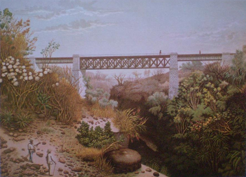 .Picture from the "Album of the Mexican Railway". Pictues by Casimiro Castro. Text by: Antonio Garcia Cubas. Published by Víctor Debray. Year: 1877 Bilanguage edition english and spanish.